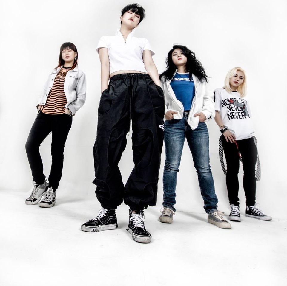 Walking After U